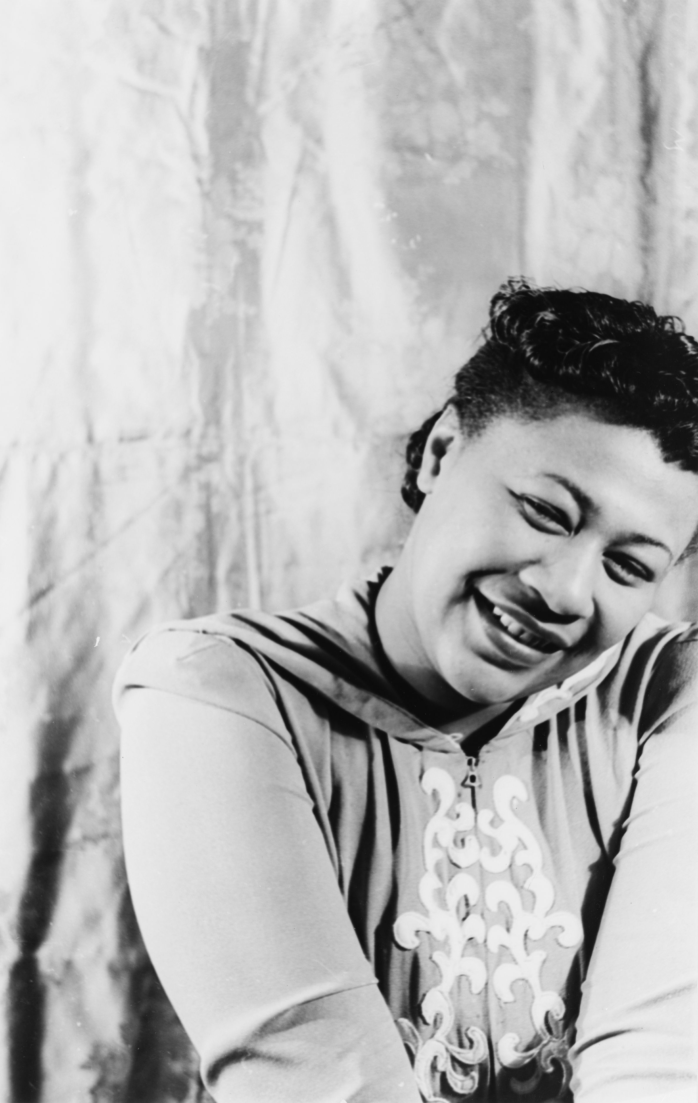 Portrait of Ella Fitzgerald